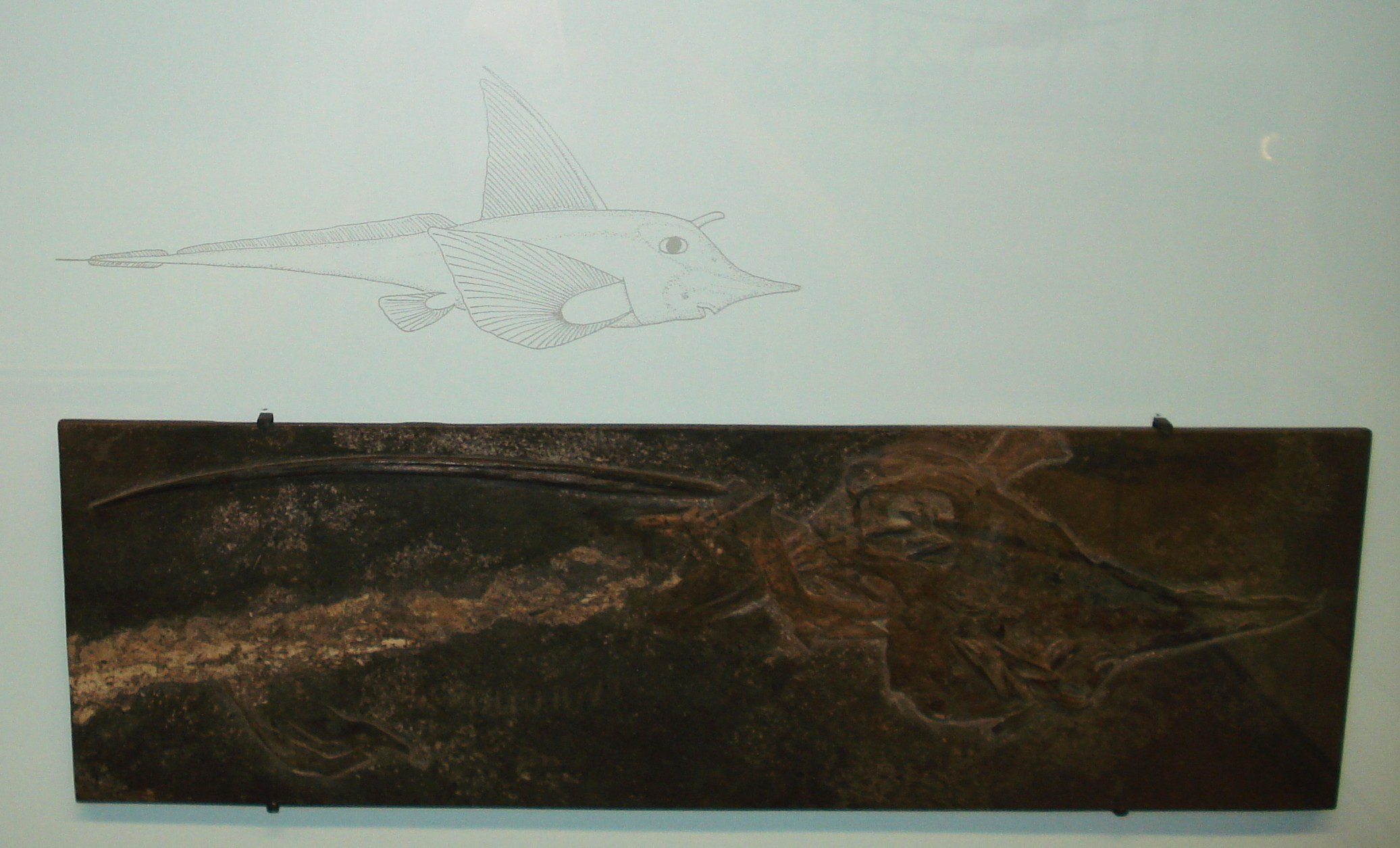 fossil of acanthorhina